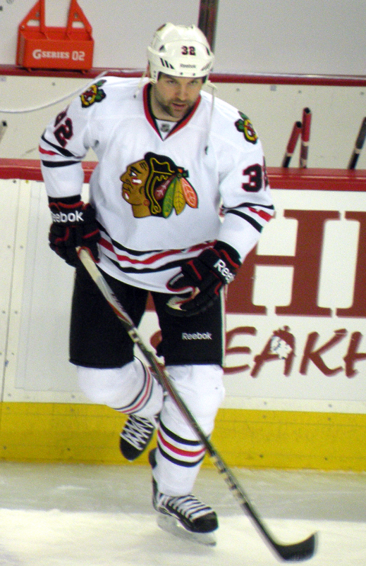 Chicago Blackhawks defenceman John Scott prior to a National Hockey League game against the Calgary Flames.